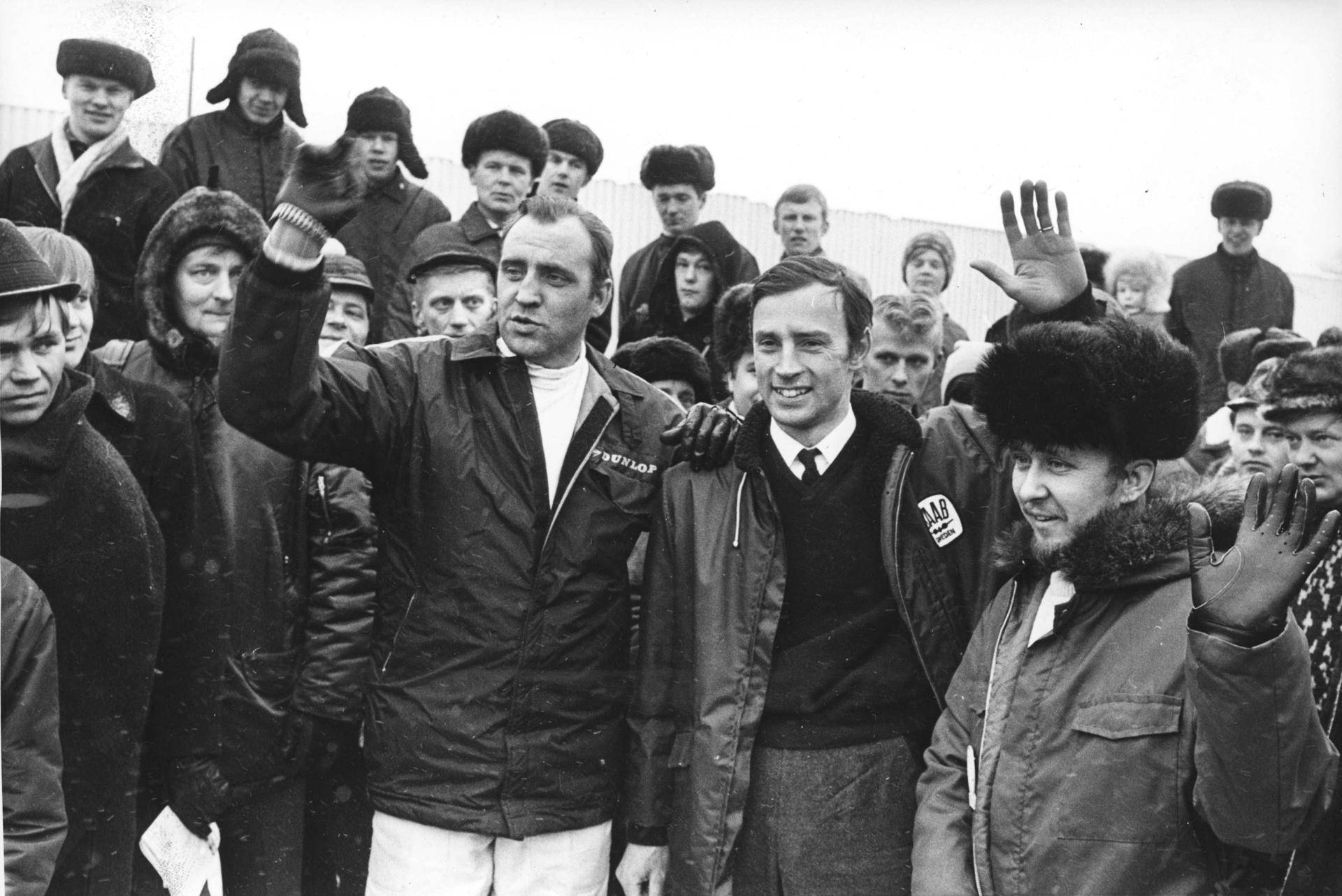 Photograph of the winners of Hankiralli racing competition: third prize, Pauli Toivonen (left); Carl Orrenius, winner (middle); and Jorma Jusenius, second prize.